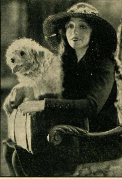 Laurette Taylor, in "Peg o' My Heart", from a 1923 publication.